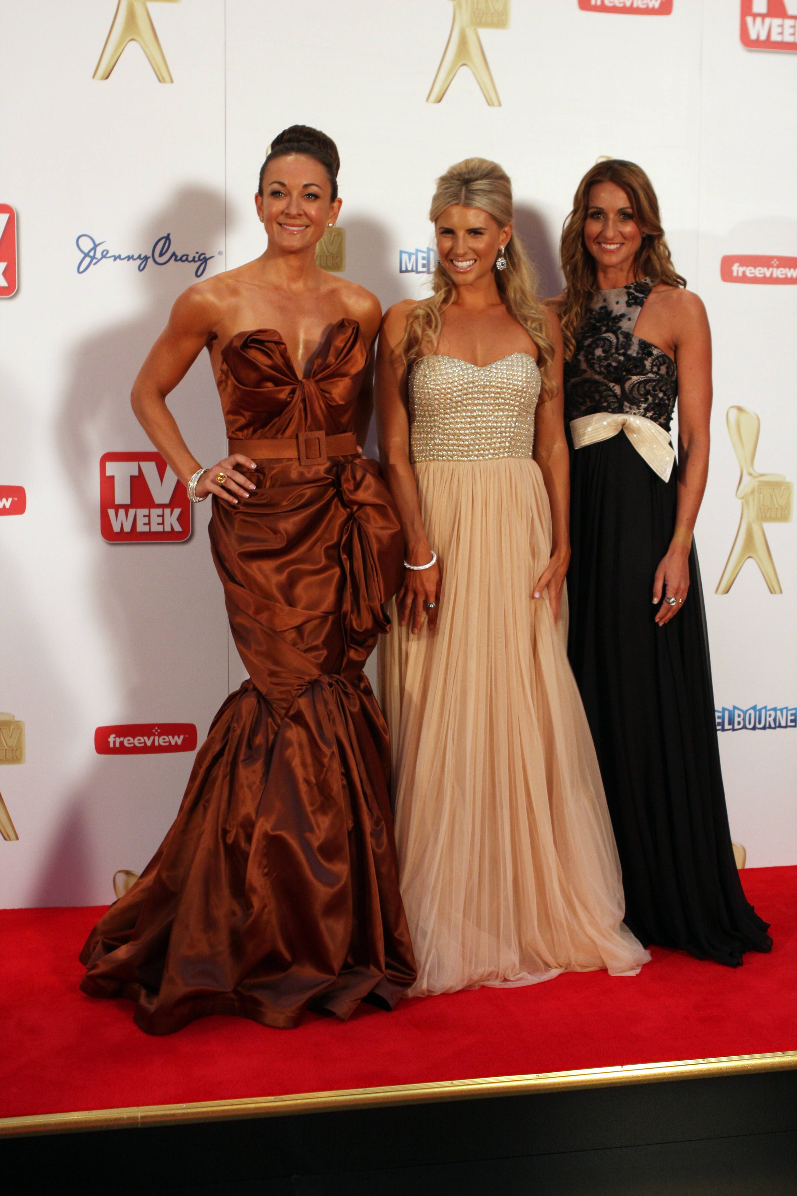 Michelle Bridges, Tiffiny Hall and Hayley Lewis at the 2011 Logie Awards